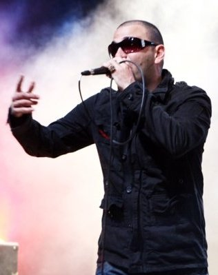 shi 360